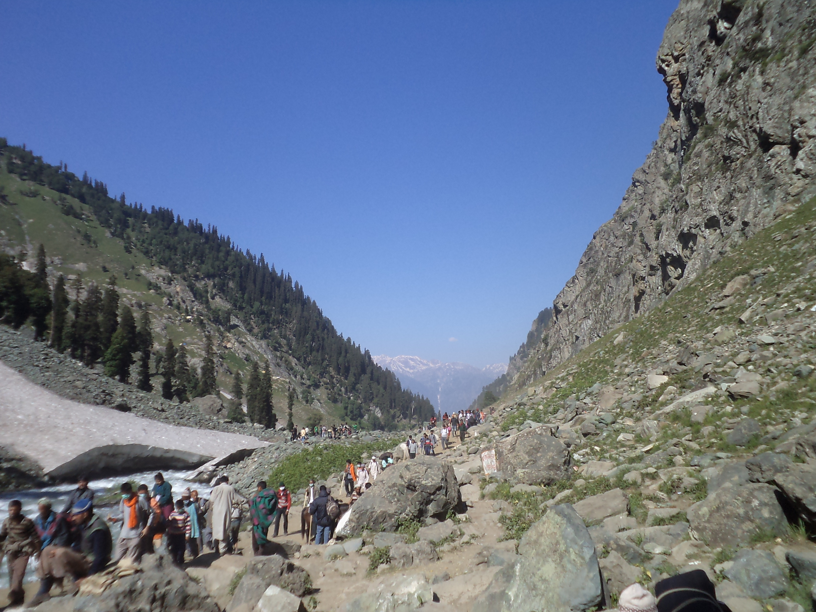 Amazing trekking